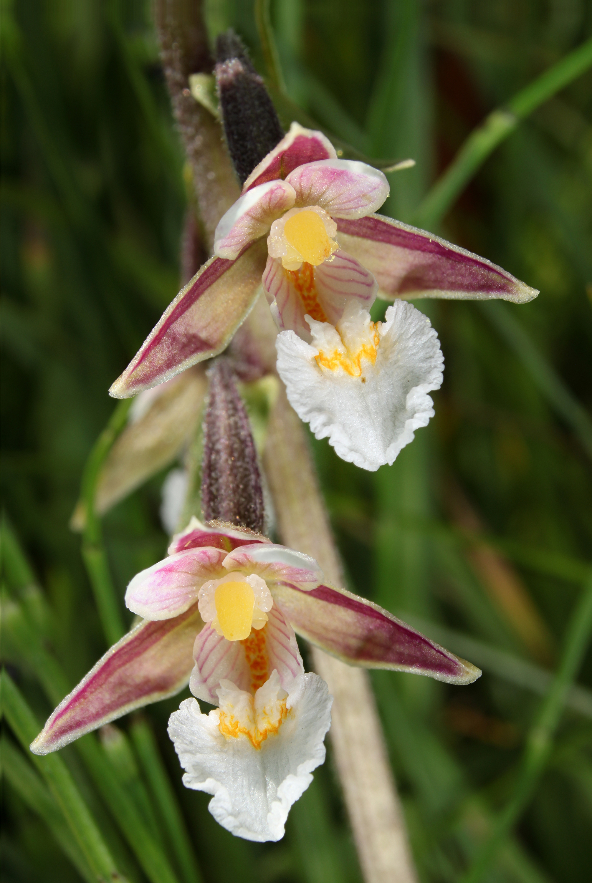 Epipactis palustris, Family: Orchidaceae, Location: Germany, Wertach-Haslach